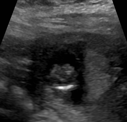 probably alobar holoprosencephalon, on the level of the choroids, ultrasound